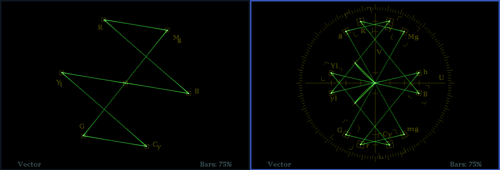 EBU color bars displayed by a SDI and an analogue vectorscope.